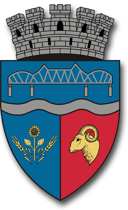 Fetesti coat of arms